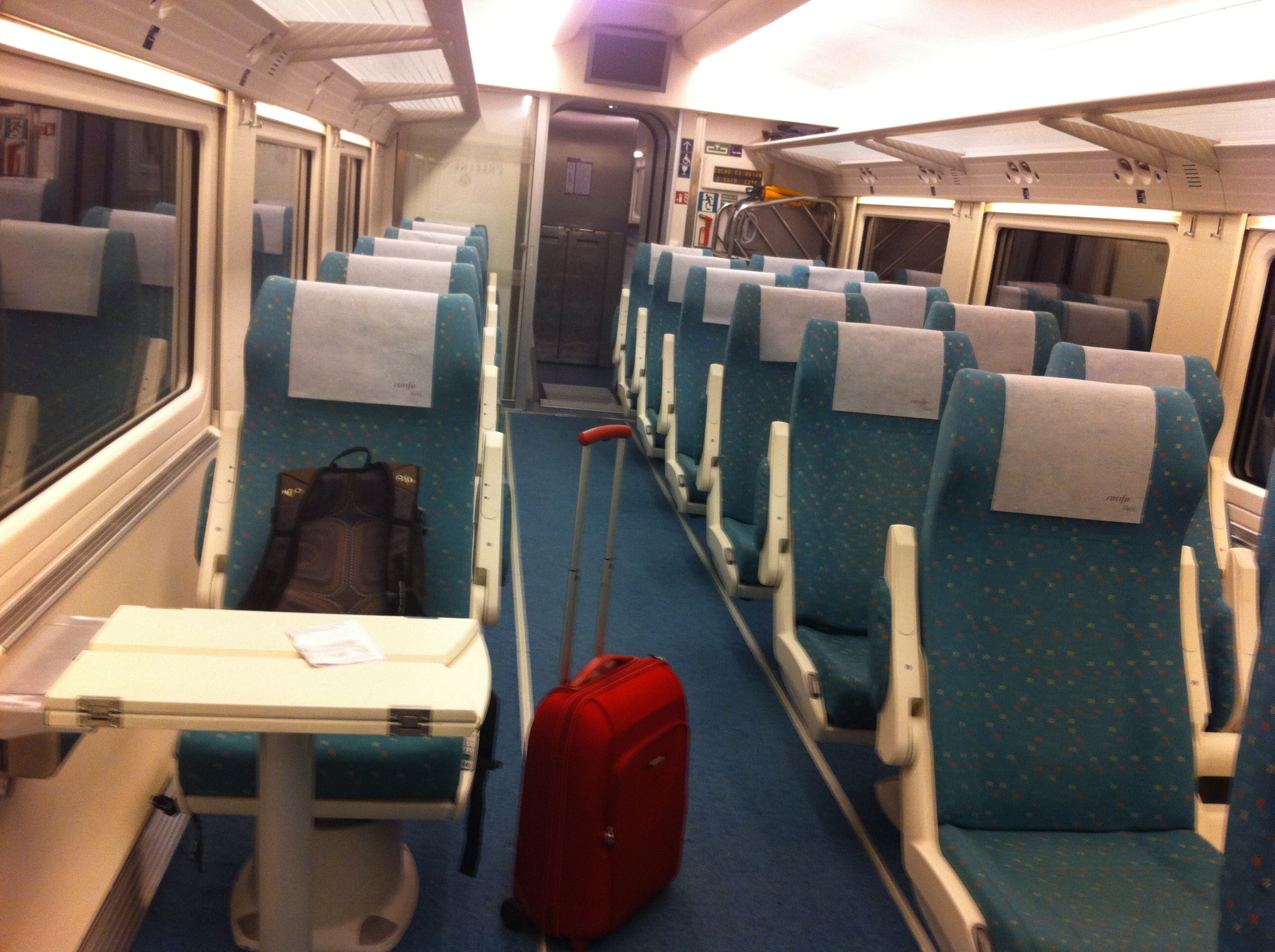 Euromed coche preferente